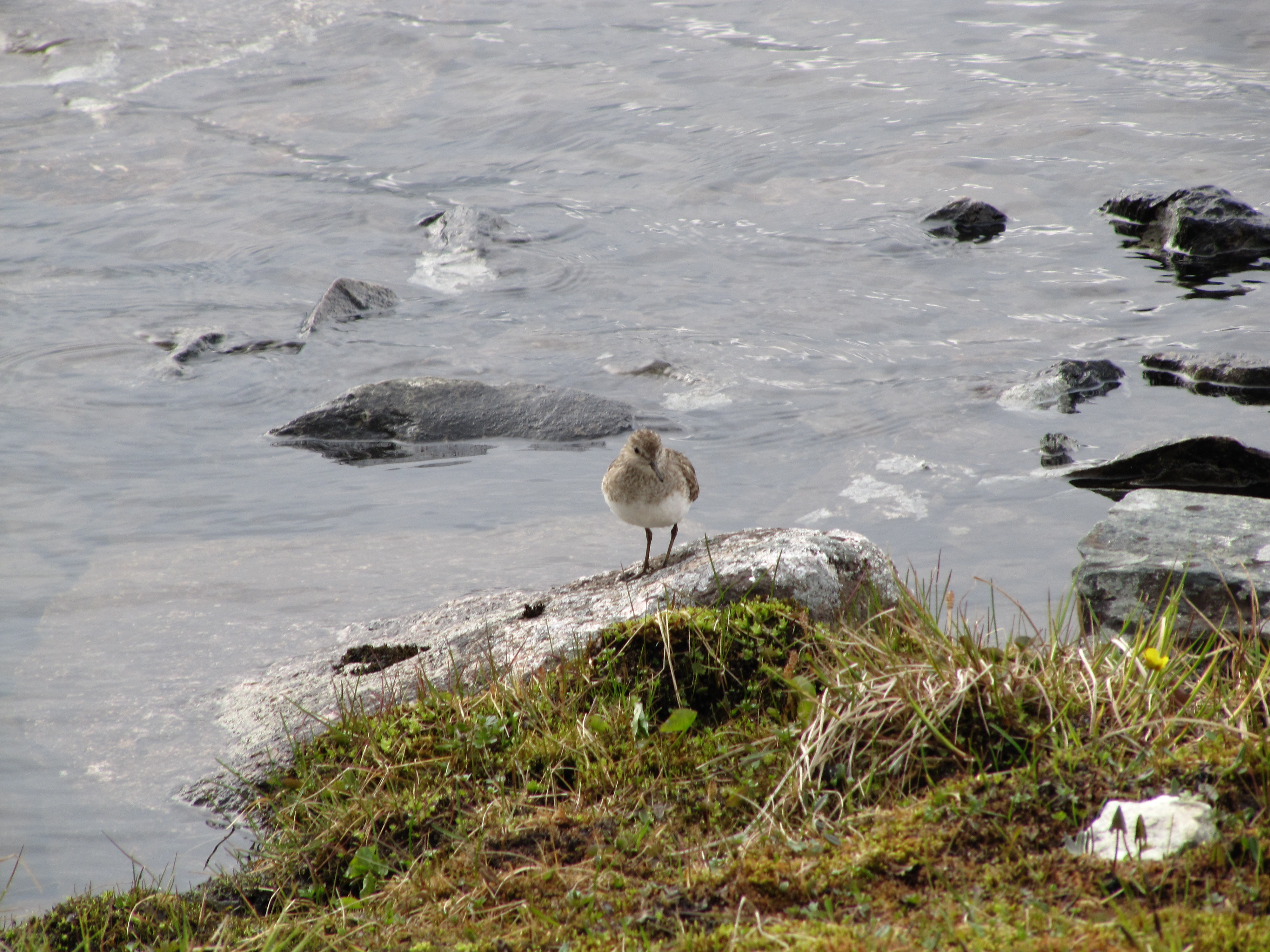 Photo of Calidris temminckii in Pitsusjärvi, Enontekiö, Finland